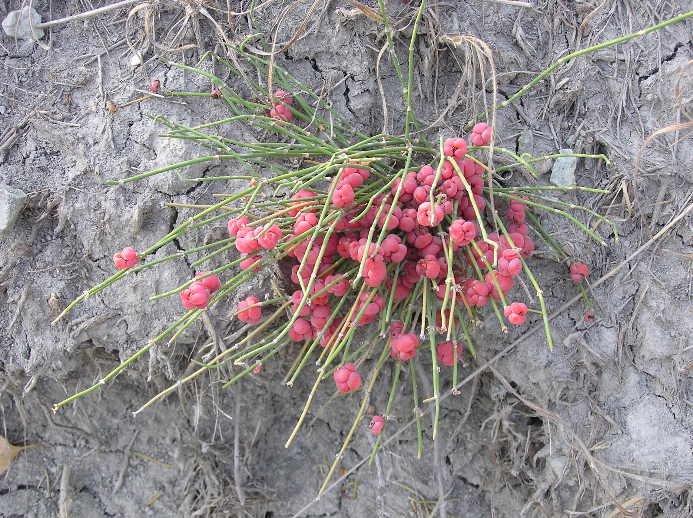 Ephedra distachya subsp. monostachya (L.) Riedl., female plant with ripe cones. Habitat: chalk exposure. Vicinity of Saratov city, Russia.